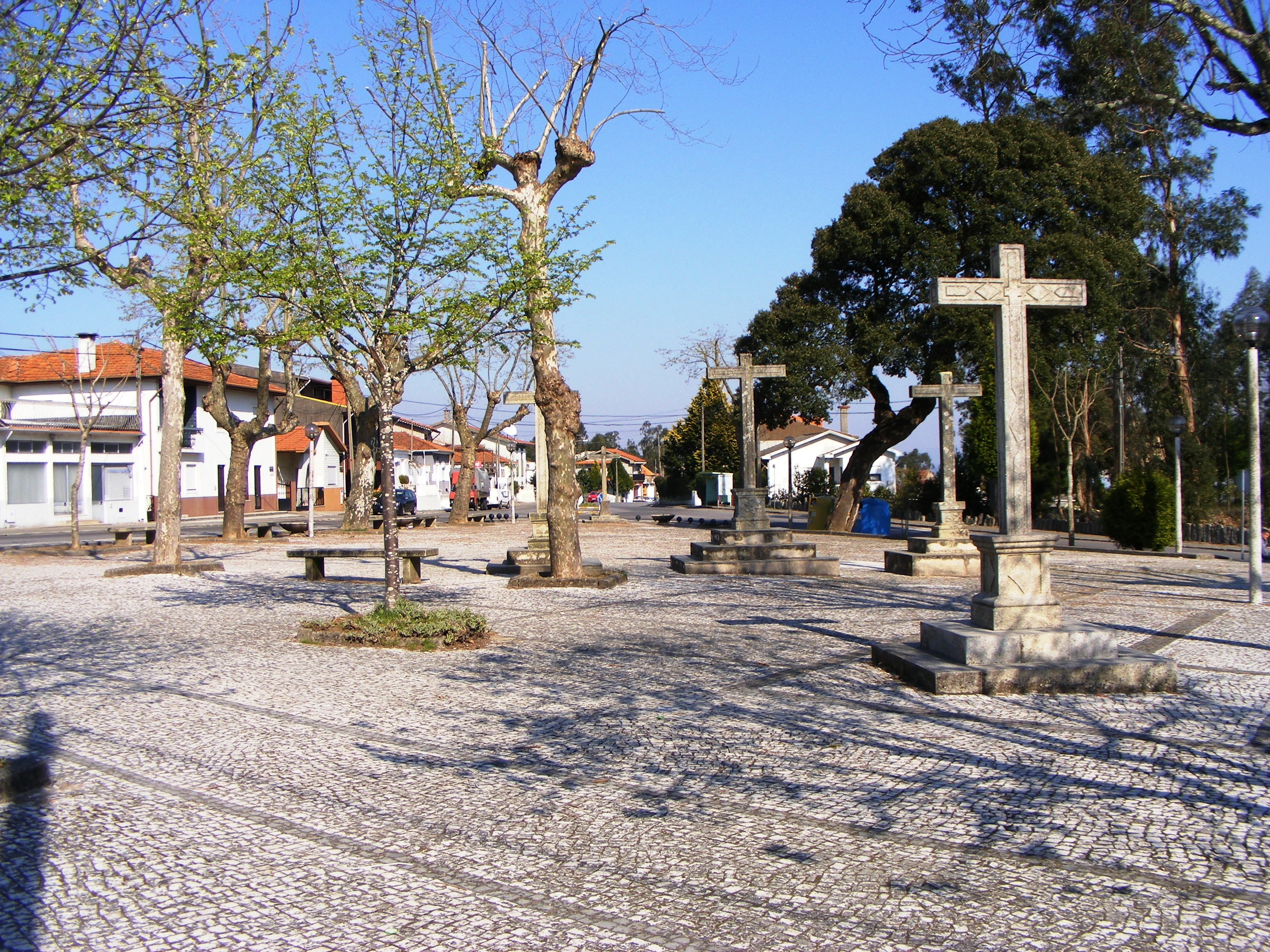 Cross